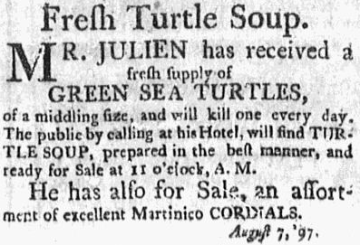 Newspaper item related to Julien's Restorator, Boston, Massachusetts